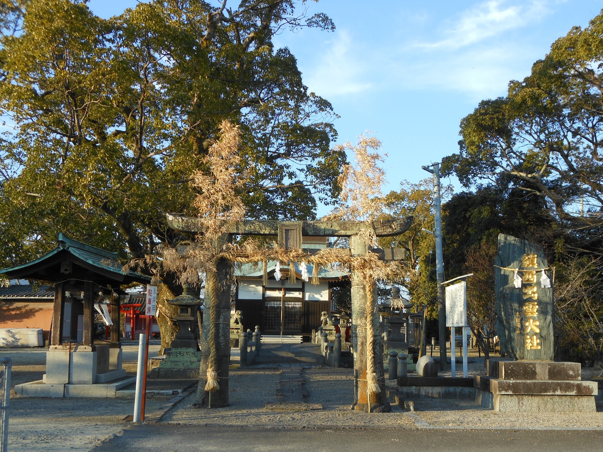 Chinzei Izumo Shrine in Hasuike, Saga City.